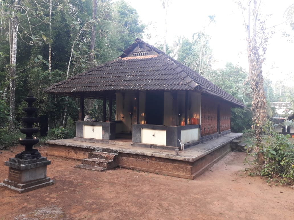 Aloor Kalari situated in Aloor near Chalakudi, Thrissur.